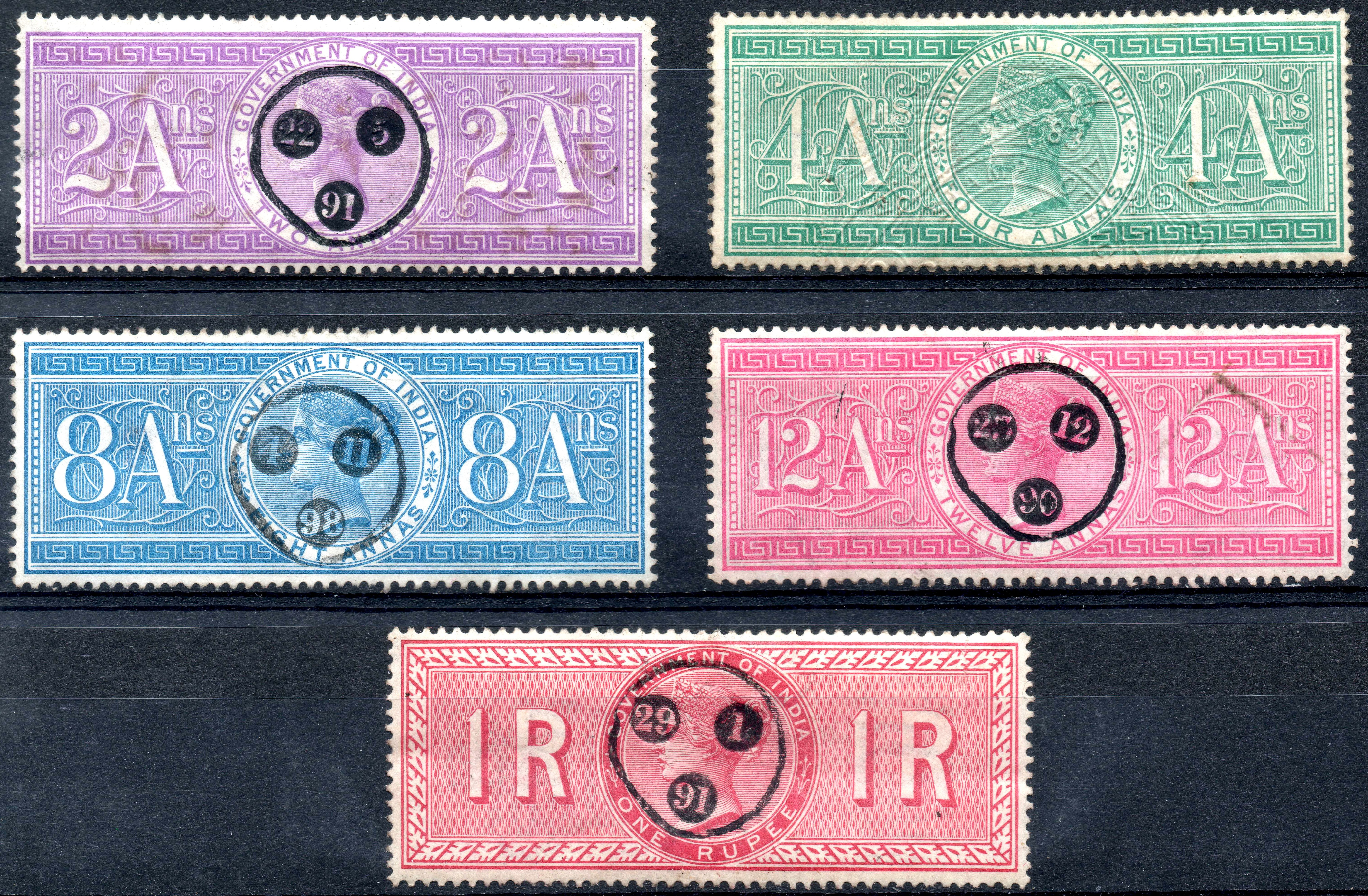 Five Indian 1868 Special Adhesive Revenue Stamps.